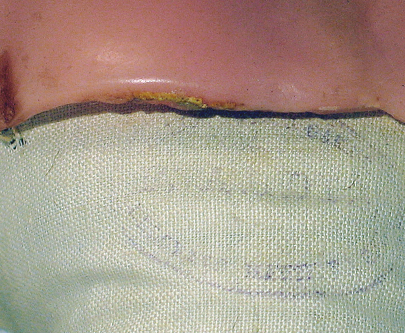 Wax doll from the doll manufacture Pierotti (head with shoulder, mohair hairs, arms and legs) and a stamp on womens torso F. Aldis ... Belgrave Manor", London, about 1880 ...